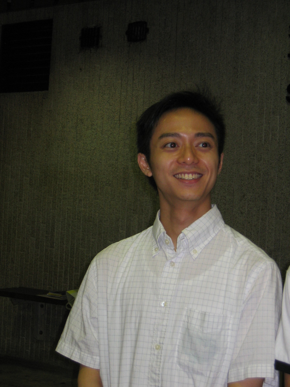 Chan Ho Fung, actor and singer from Hong Kong, in 2005